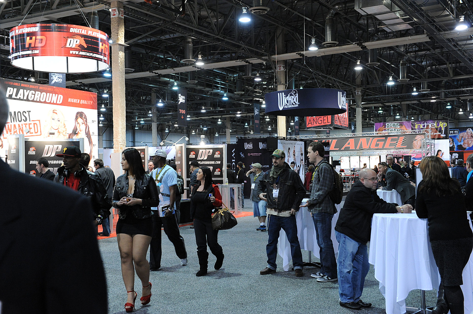 AVN Adult Entertainment Expo 2011